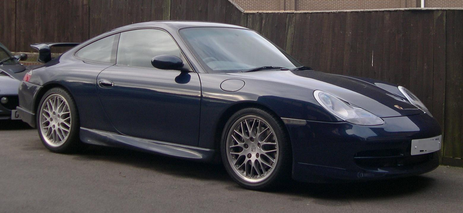 Porsche 996 Carrera 4 with the optional "Aerokit Cup" (GT3-Look)